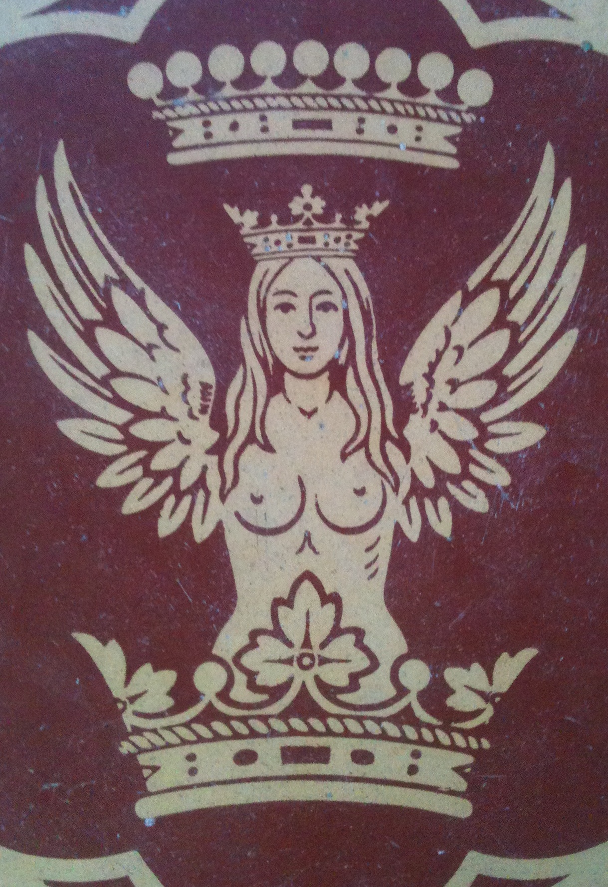 My photo (R. de SalisRodolph (talk) 00:08, 20 February 2014 (UTC)) of Bellona, & count's coronet, C19th floor tile, in a Wiltshire church, UK (i-phone photo 2014). Probably done to coincide with installation of the Triqueti tarsia panel in same side chapel, see Elizabeth Darby, "A French Sculptor in Wiltshire: Henri de Triqueti's Panel in the Church of St Michael & All Angels, Teffont Evias." The Wiltshire Archaeological and Natural History Magazine. Vol.95 (2002).